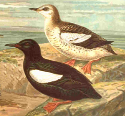 Cephus grylle (Black Guillemont) drawing by Naumann